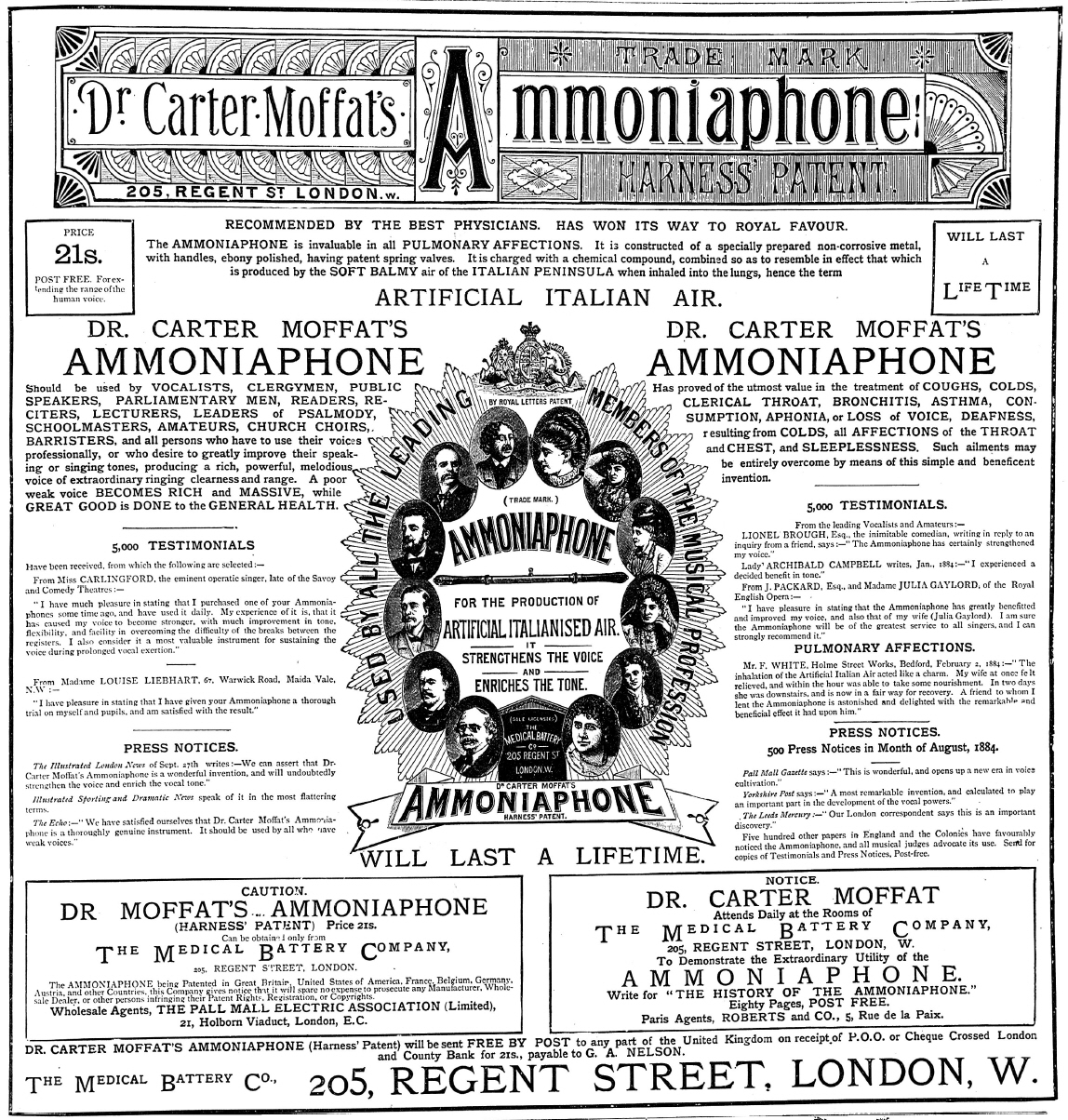 Newspaper advertisment for the ammoniaphone